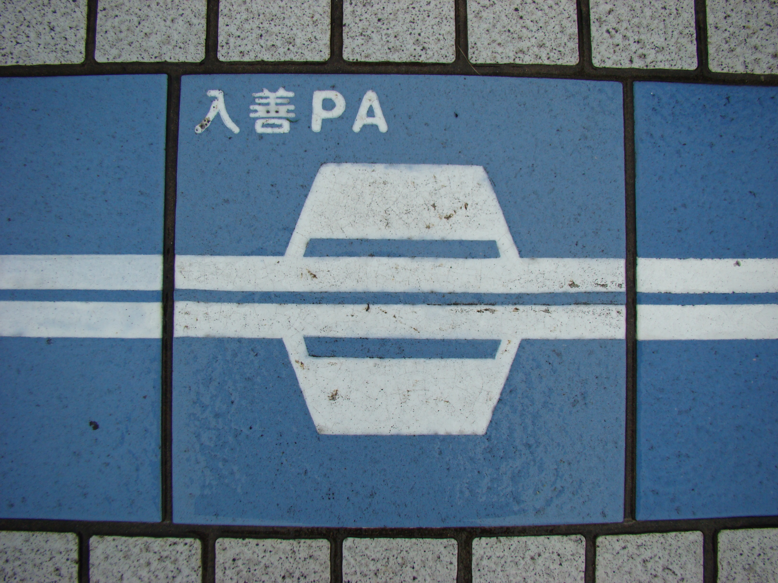 The tile which designed a shape of the Nyuzen Parking Area（Hokuriku Expressway）（There is this tile in Hokuriku Expressway Nadachi-Tanihama Service Area.）. Place - Chayagahara,Joetsu City,Niigata Prefecture,Japan Date - August 9, 2009 Format - JPEG, 3264x2448pixel, 24bit colors. Photographer - NALA Wiki (talk)